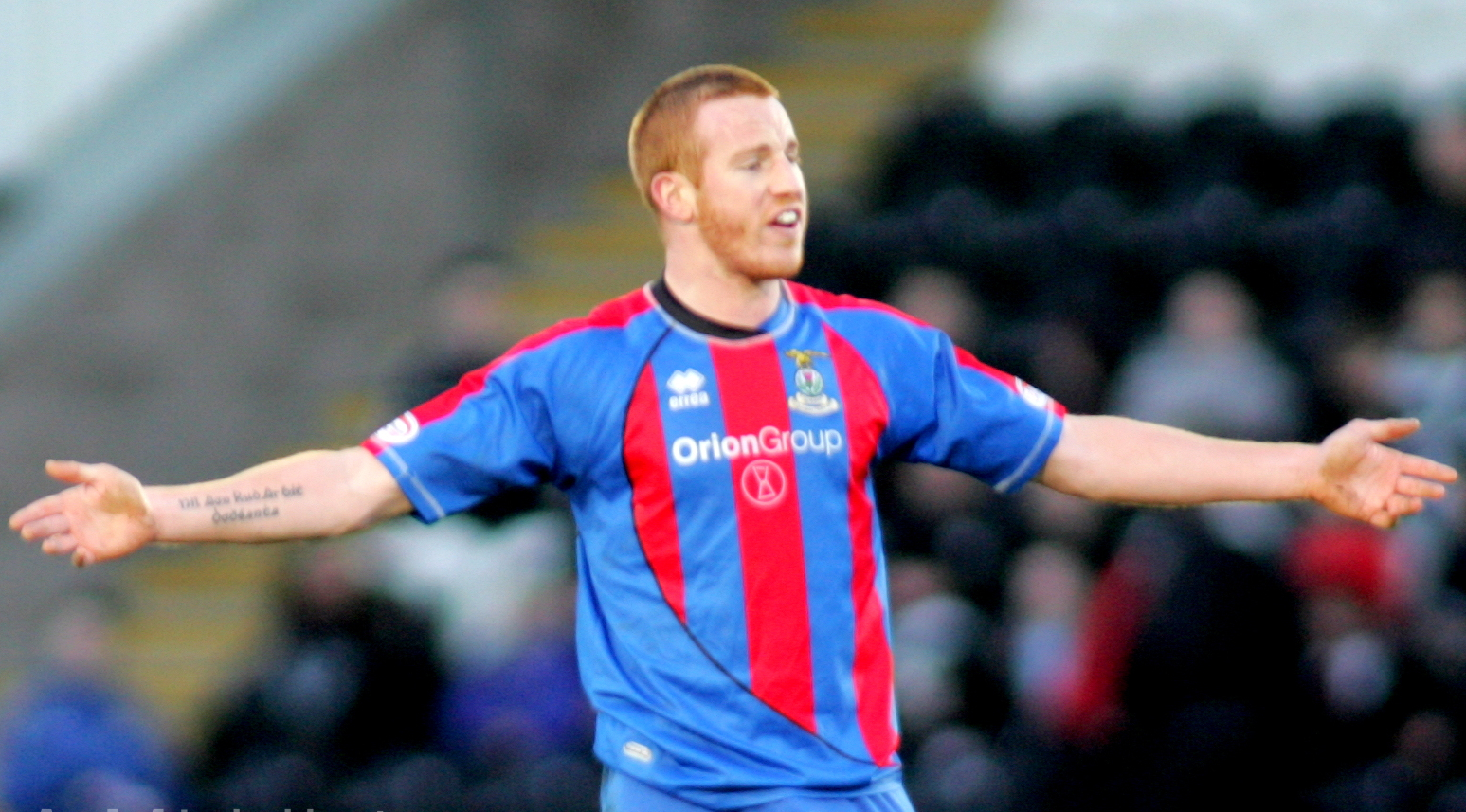 CLYDESDALE BANK SCOTTISH PREMIER LEAGUE - St Mirren vs Inverness Caley Thistle. ICT's Adam Rooney pleads his innocence for this challenge on the St Mirren Winger Paul McGowan during the eventful 3-3 draw at St Mirren Park, Paisley. Picture : Alasdair Middleton/Universal News & Sport (Scotland) Saturday 12th February 2011 Universal News and Sport (Europe) All pictures must be credited to (0ffice) 0844 884 51 22